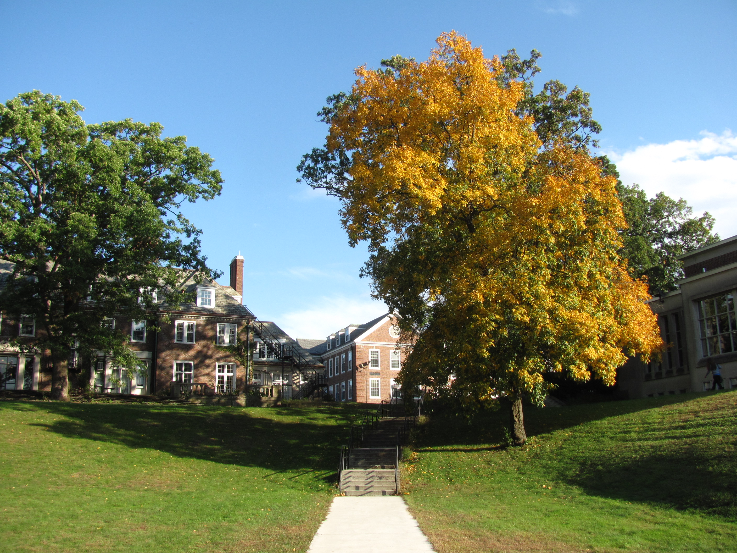 Boston College Newton Campus, Newton Massachusetts